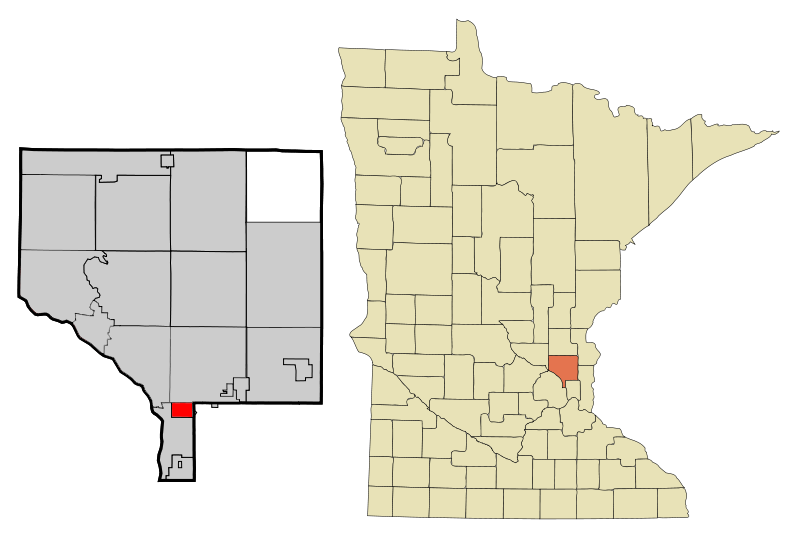 This map shows the incorporated and unincorporated areas in Anoka County, highlighting Spring Lake Park in red. This file has been updated to reflect the recent incorporation of new municipalities.